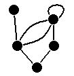 An illustration of the Euler characteristic: This is a planar graph that does not correspond to a polyhedron.